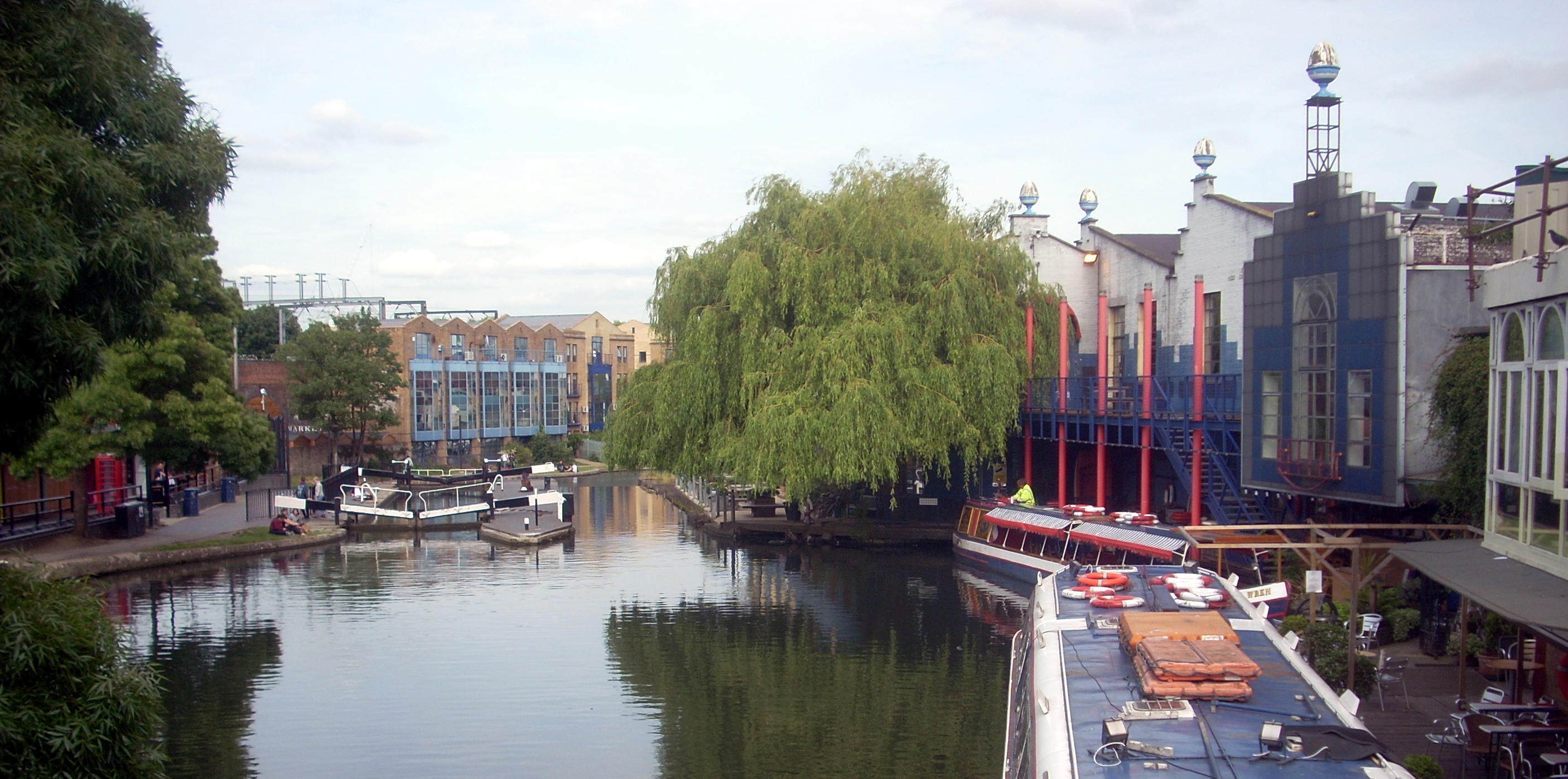 Tvam building camden regents canal 2009